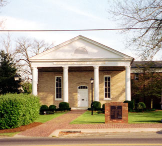 Spotsylvania County Courthouse (Built 1839), Spotsylvania Virginia This image or file is a work of a United States Department of Agriculture employee, taken or made during the course of an employee's official duties. As a work of the U.S. federal government, the image is in the public domain. Object location 38° 12′ 12.0″ N, 77° 35′ 6.0″ W This and other images at their locations on: Google Maps - Google Earth - OpenStreetMap - Proximityrama(Info)